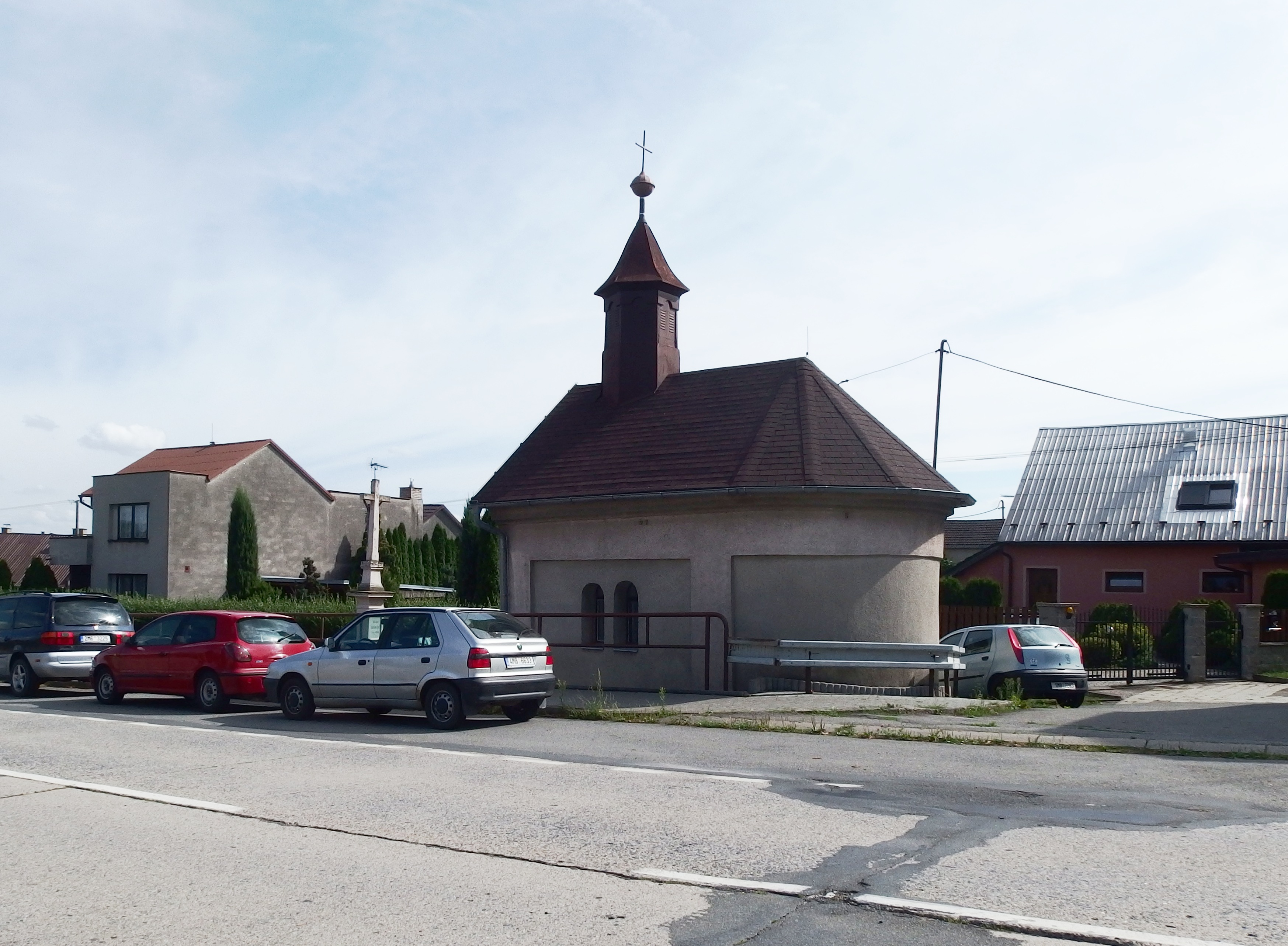 Dolní Újezd, Přerov District, Czech Republic, part Skoky.